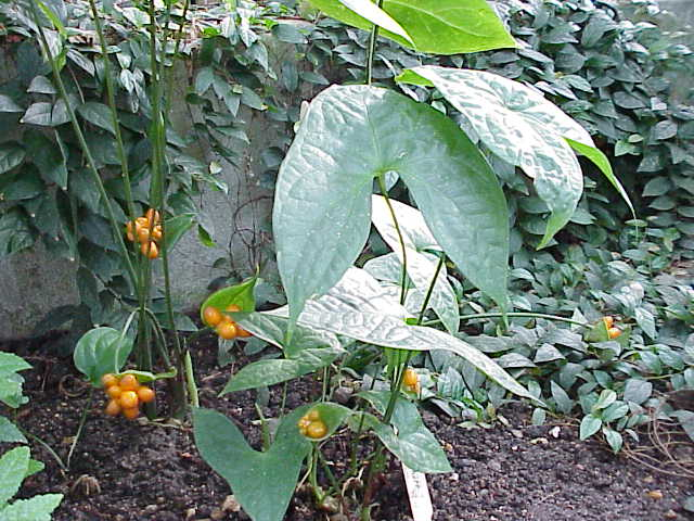 Species: Nephtytis afzelii Family: Araceae Image No. 1